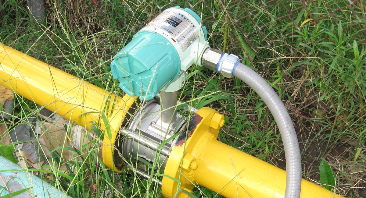 View of mounted Vortex flow meter